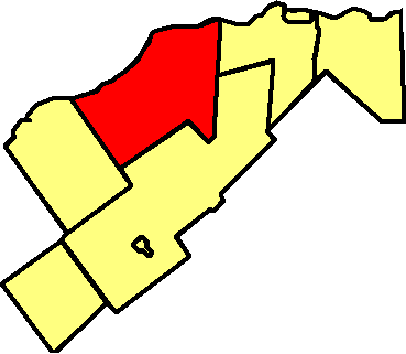 Alfred and Plantagenet